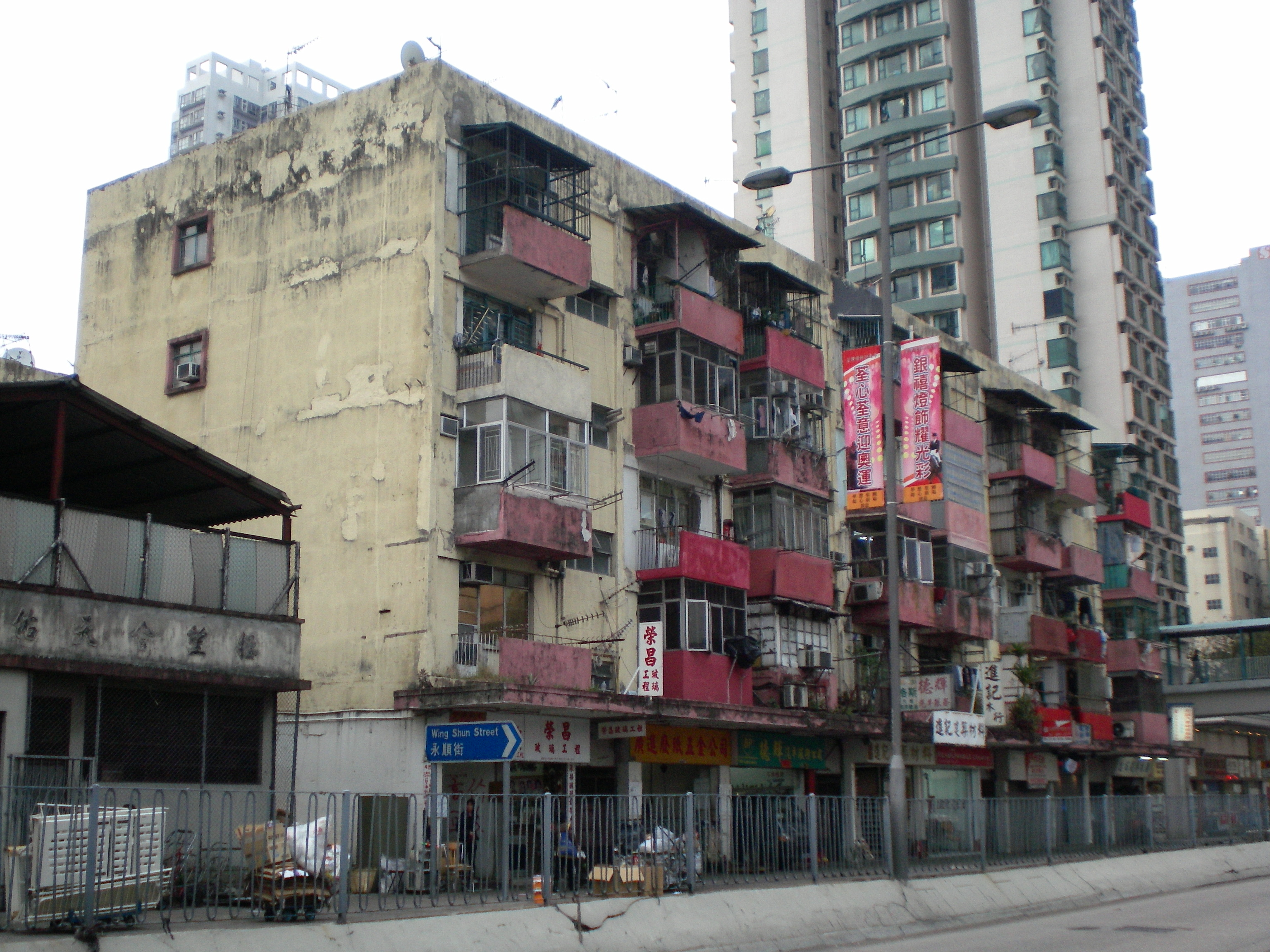 Shek Pik New Village in 2008. 中文（香港）: 2008年的石碧新村。